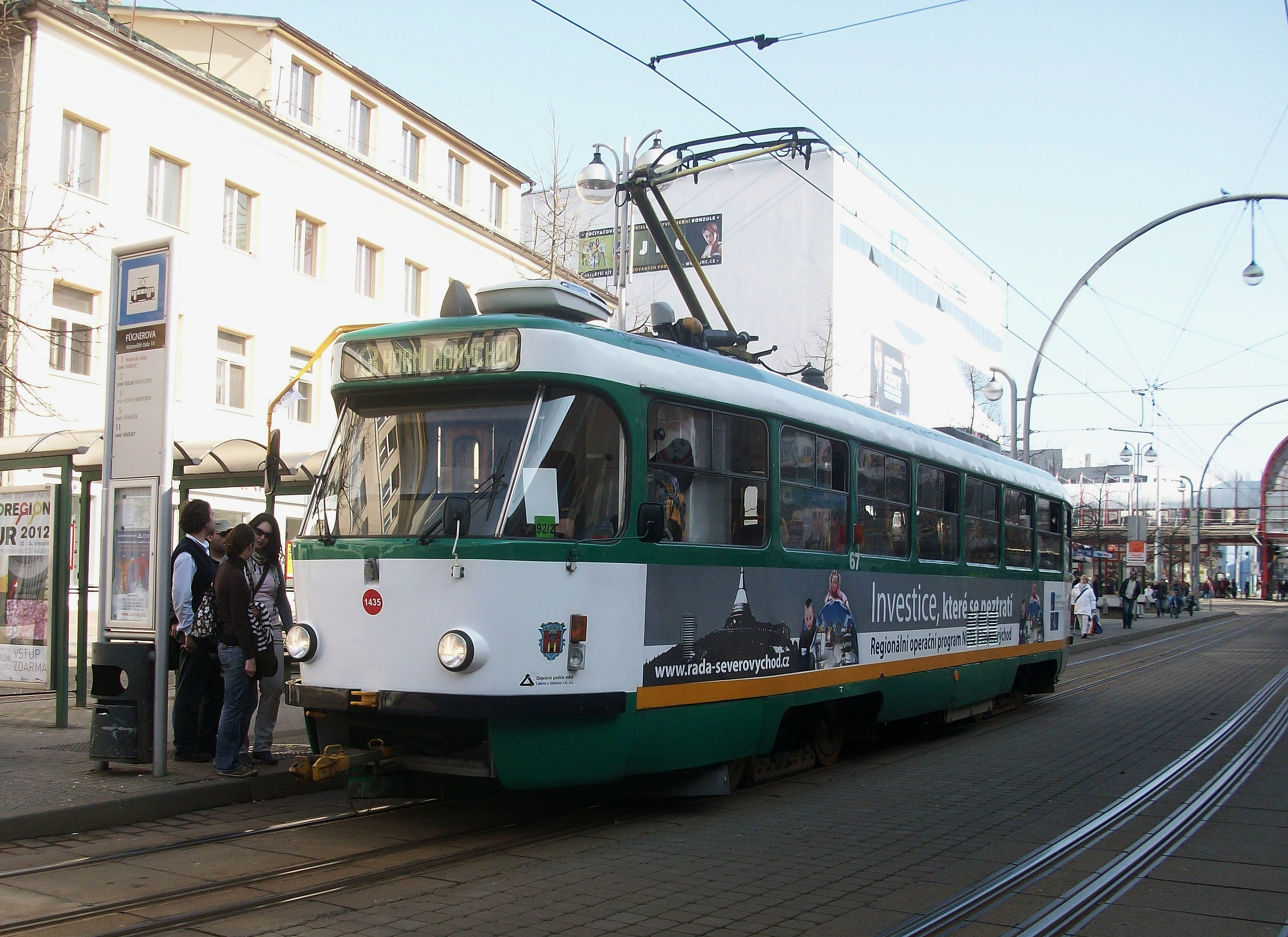 Tatra T3, Liberec